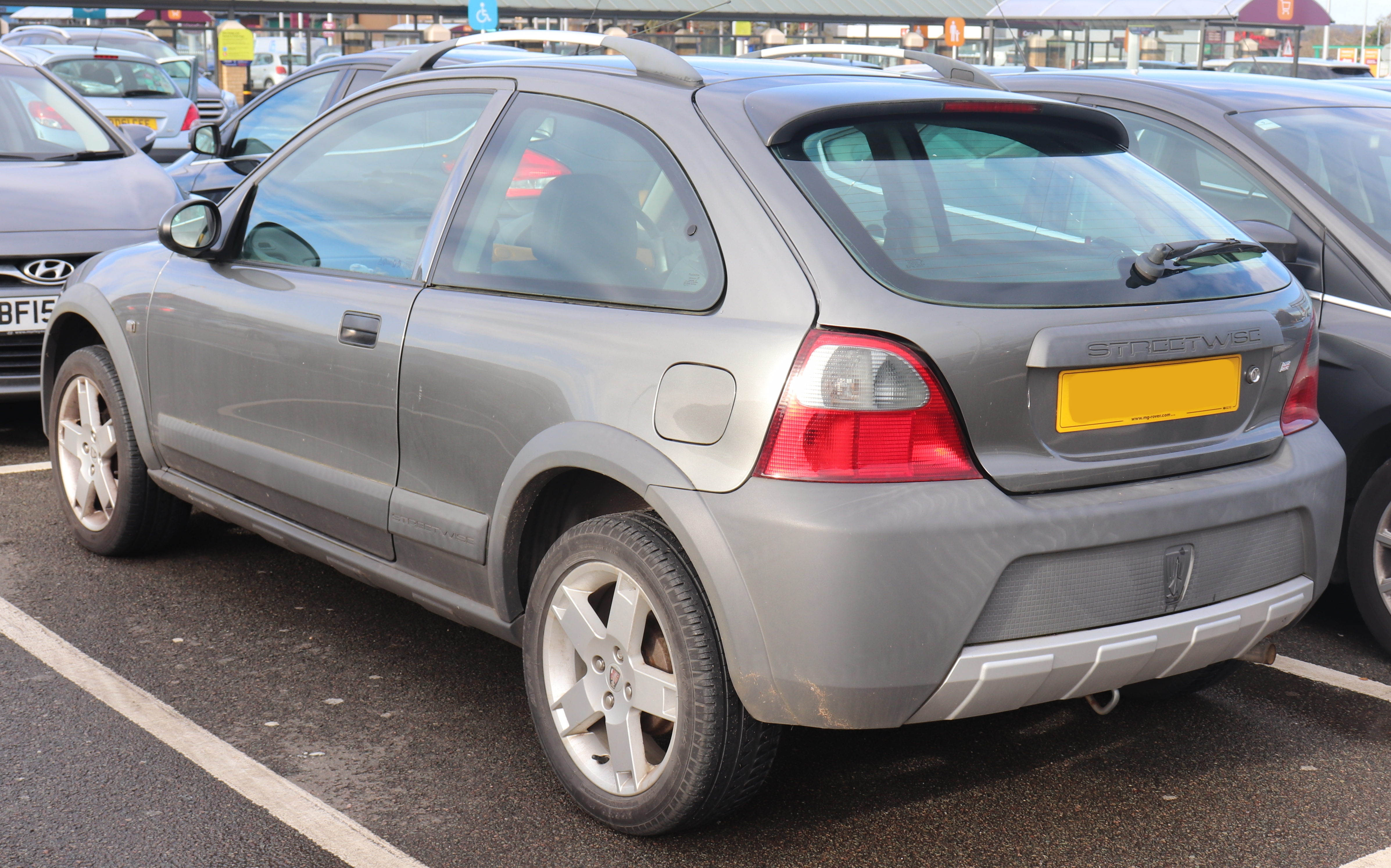 2004 Rover Streetwise S 1.4 Rear Taken in Leamington Spa